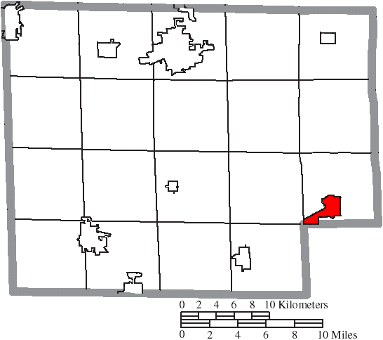 Map of the municipal and township boundaries of Huron County, Ohio, United States, as of the 2000 census, with the location of the village of New London highlighted. Township borders are shown only in unincorporated areas in order to differentiate incorporated and unincorporated areas more clearly.